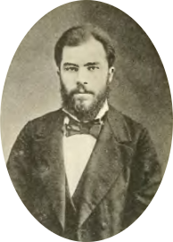 Bulgarian politician Stefan Stambolov before 1888.